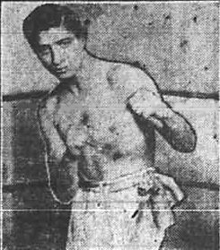 This is a photo of Benny Valger taken in 1920. Valger was a French born World Featherweight Boxing Championship contender against Johnny Kilbane in 1920.